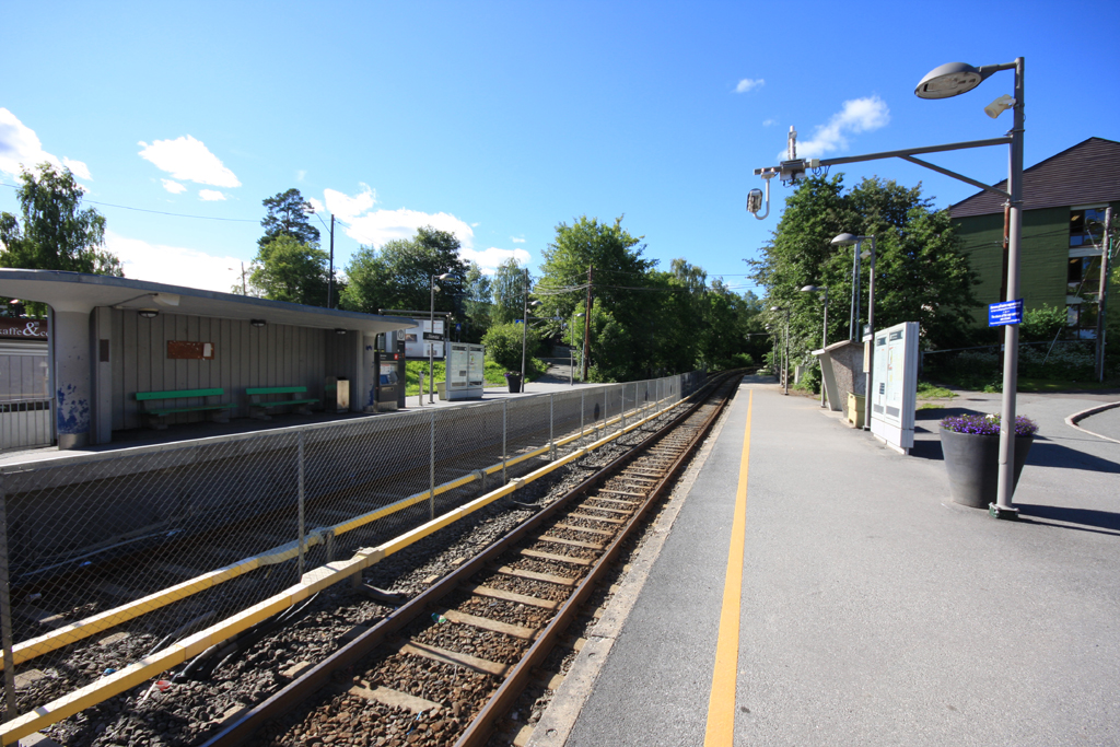 Slemdal Metrostation. Seen from Northbound platform 1. Faced towards Gråkammen.